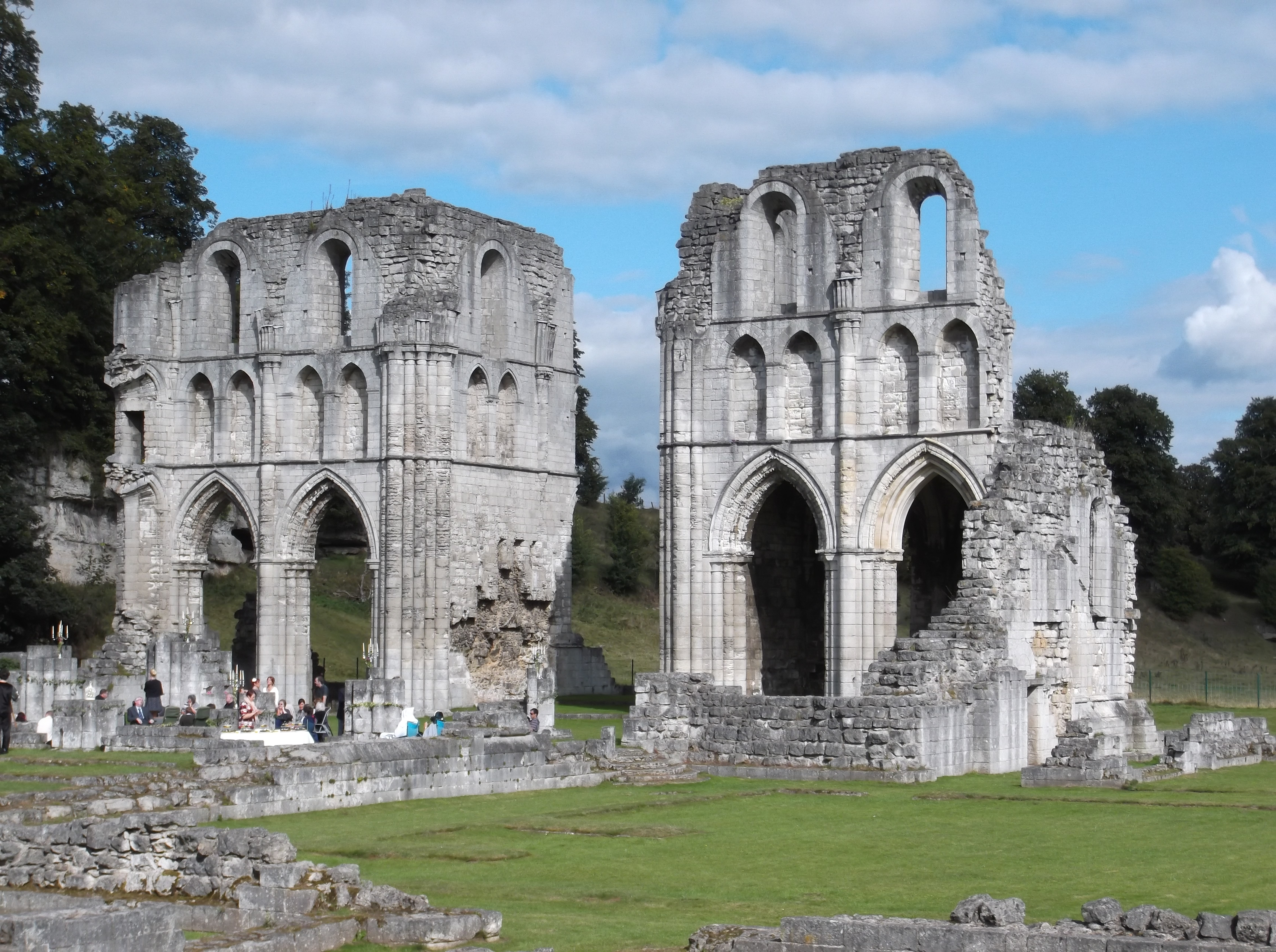 Part of the remains of Roche Abbey, South Yorkshire, England